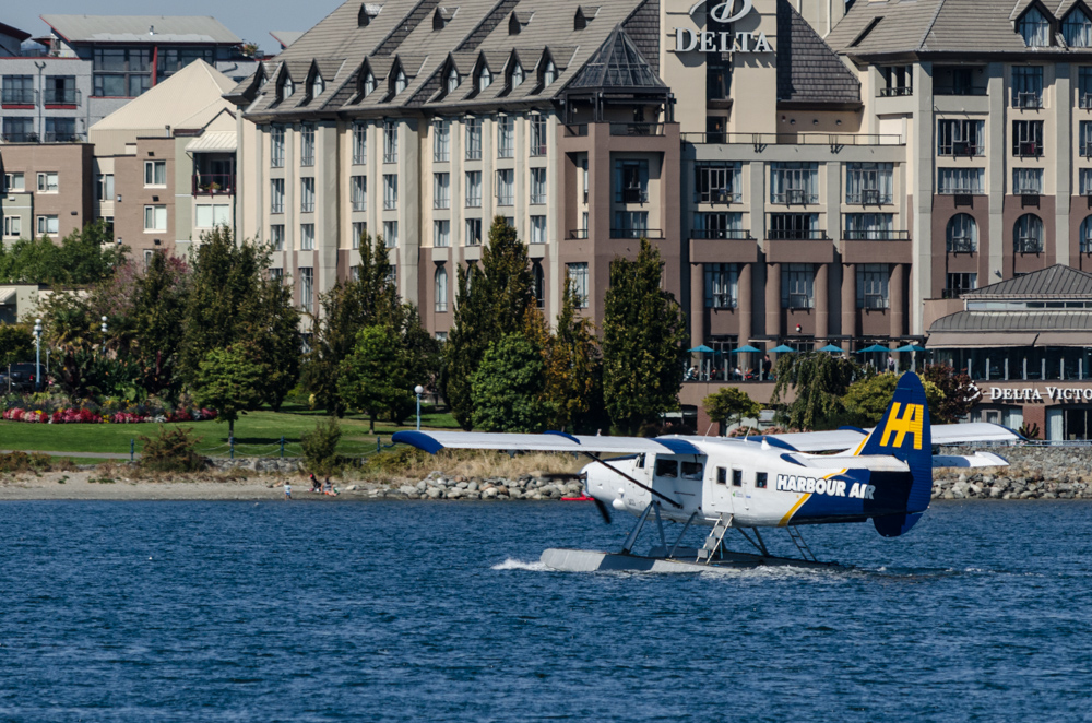 Harbour Air floatplane at Victoria's Inner Harbour Airport with the Delta Victoria in the background